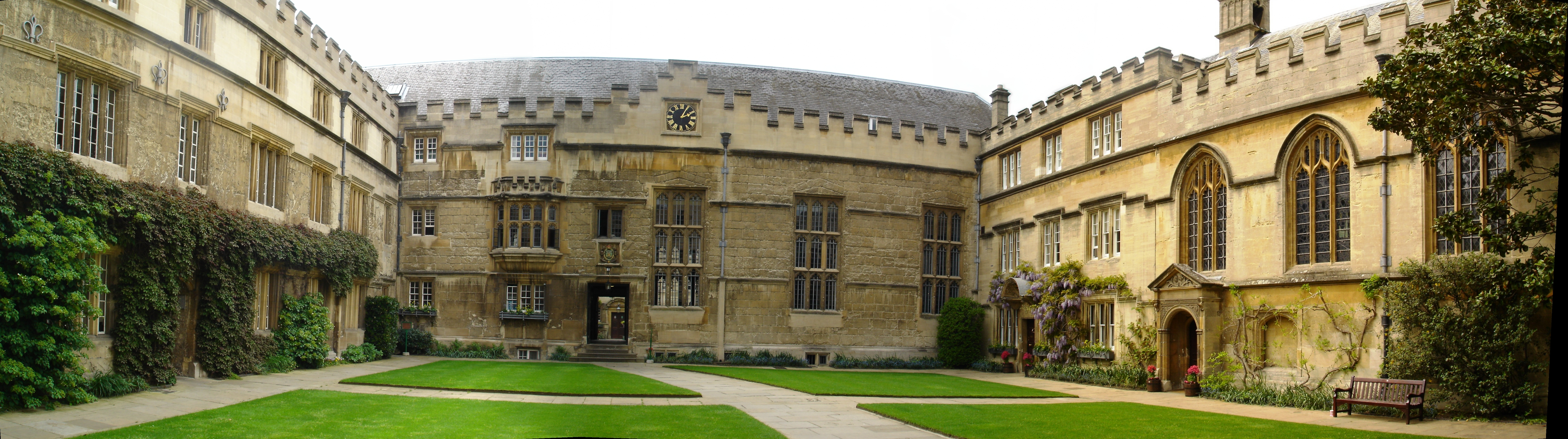 A panoramic view of the First Quadrangle of Jesus College, Oxford. The hall is in the centre (the west), to the right of the passageway and lit by the three large windows. The Principal's Lodgings are on the north side of the quadrangle, with the chapel alongside.